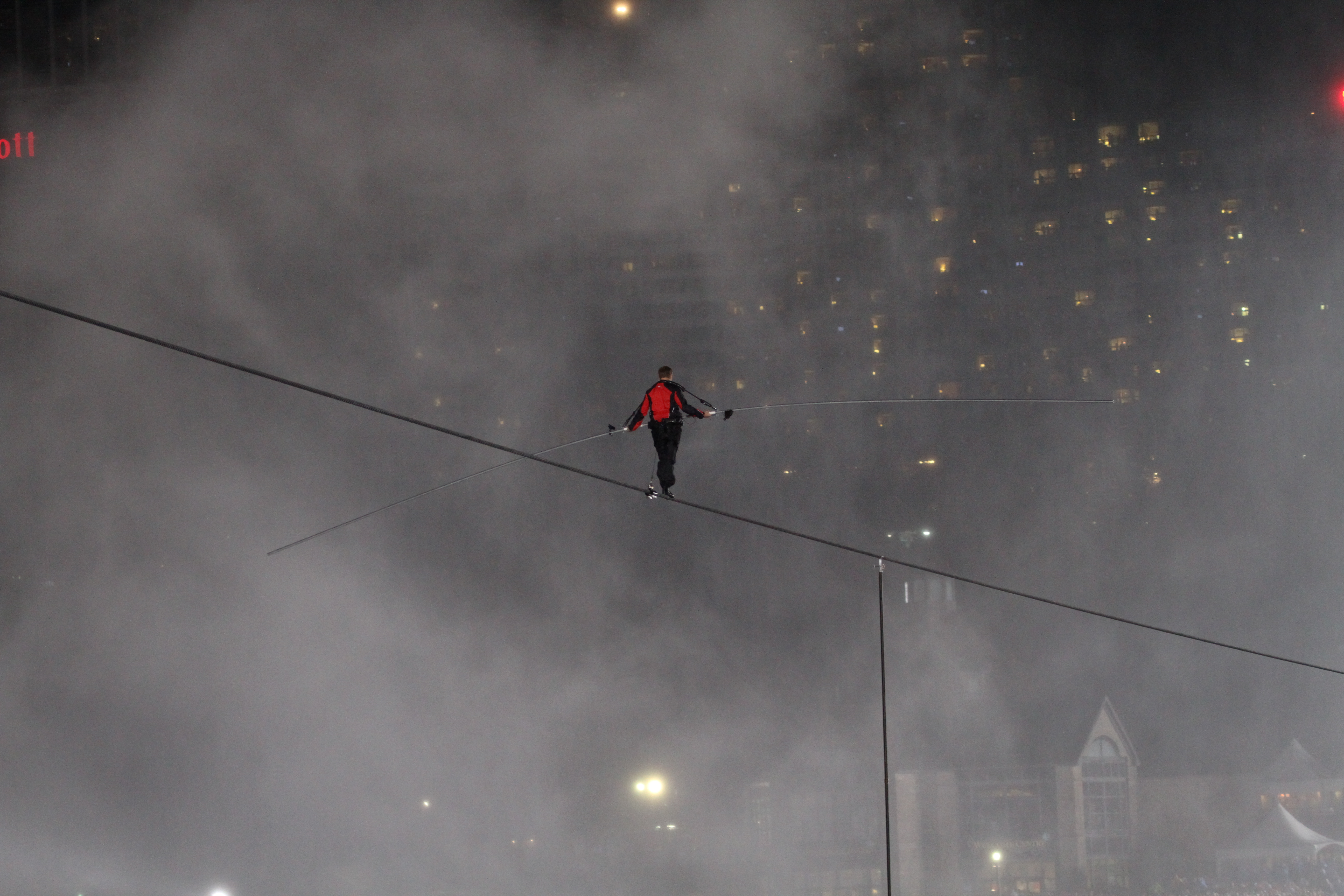 Nik Wallenda amongst the mist of Niagara Falls